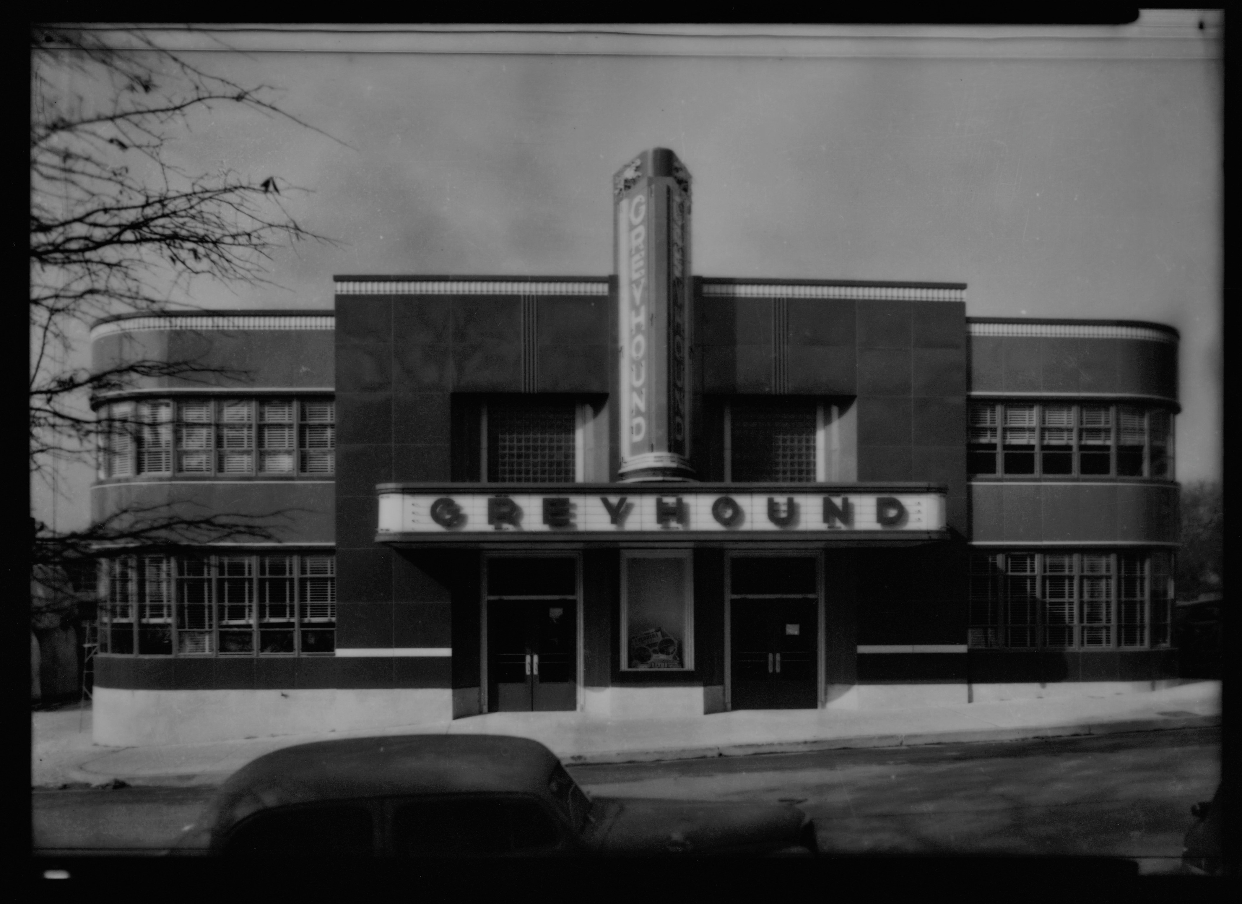 A front view of the Greyhound Bus Station, located at 219 N. Lamar St., Jackson Mississippi. Monocrome source photo was taken December 22, 1939. Cropped and contrast-enhanced from an archival photo in the collection of the Mississippi Department of Archives and History, and already placed in the Wikimedia Commons at "Greyhound_Bus_Station,_December_22,_1939._(8758711973).jpg" From Greyhound Bus Station, December 22, 1939. Sysid 103855. Scanned as TIFF in 2010/12/23 by MDAH. Credit: Courtesy of the Mississippi Department of Archives and History.